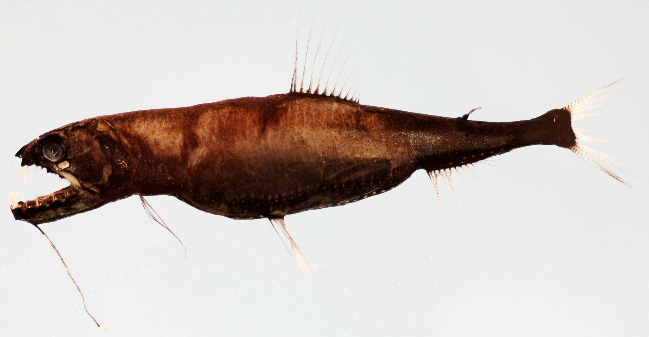 Snaggletooth subfamily of dragonfishes ( Astronesthes similus ). Gulf of Mexico.